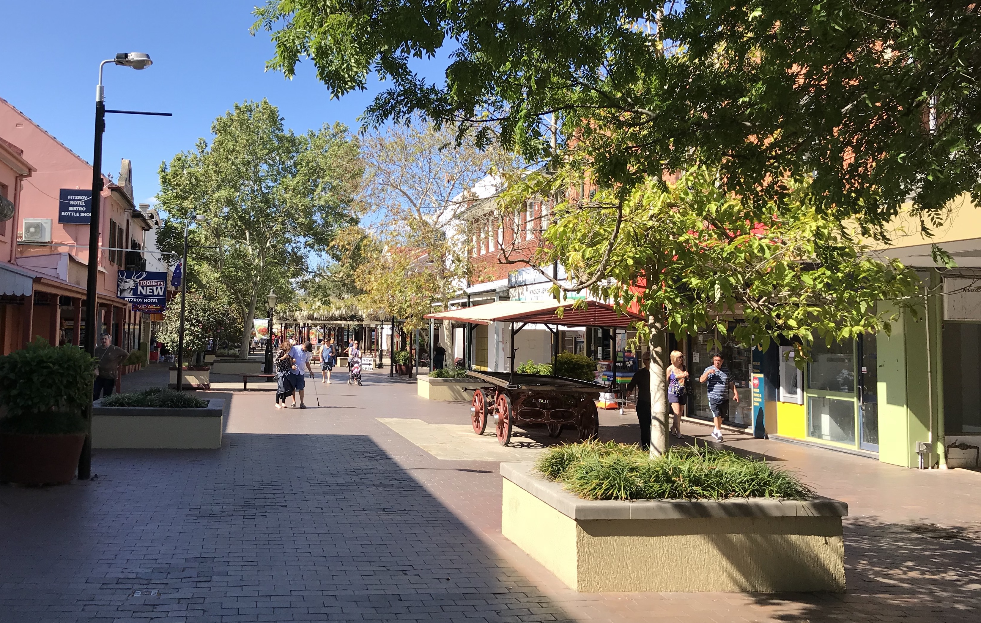 George Street, Windsor, New South Wales, Australia